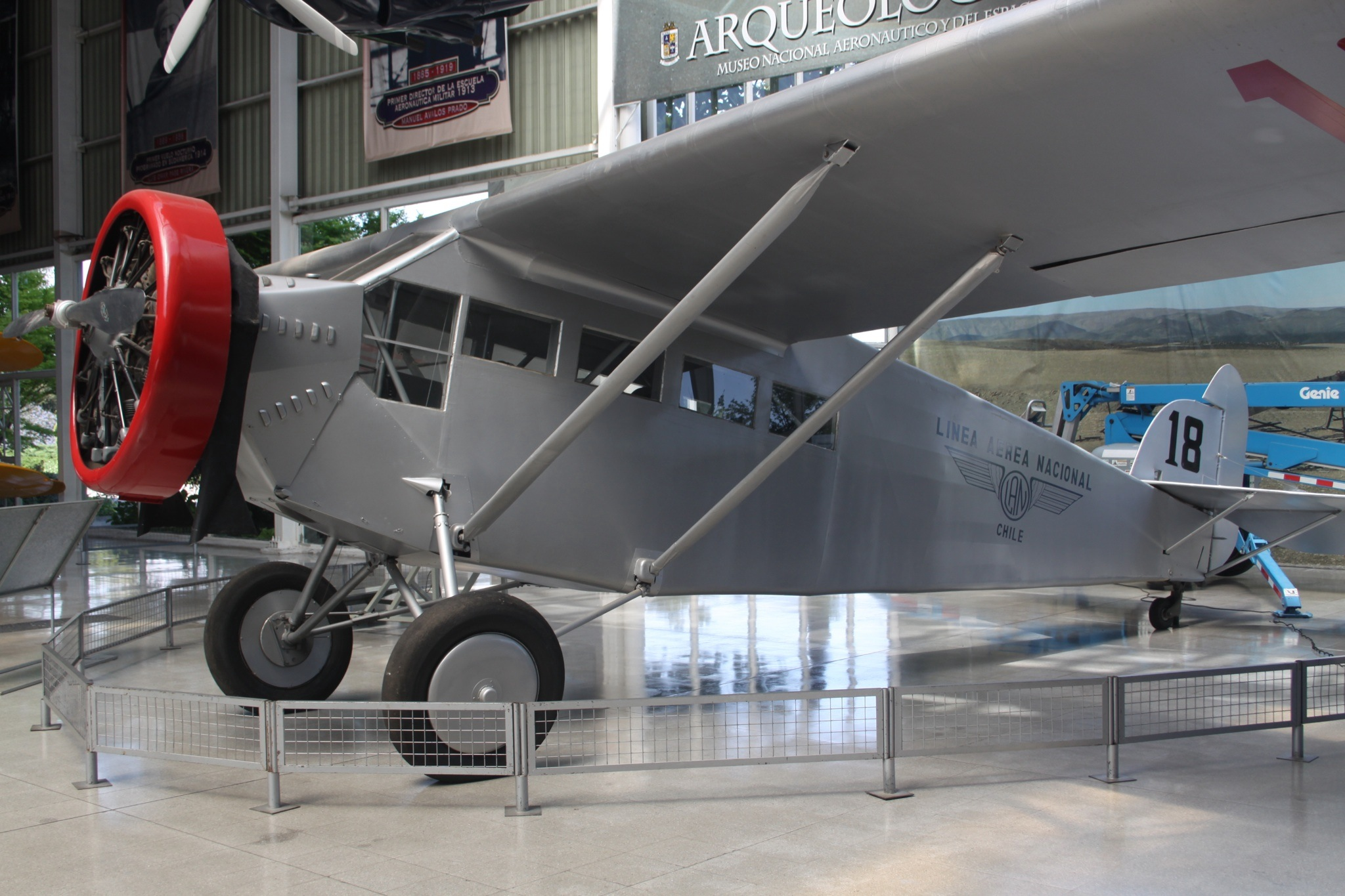 At Santiago Los Cerillos